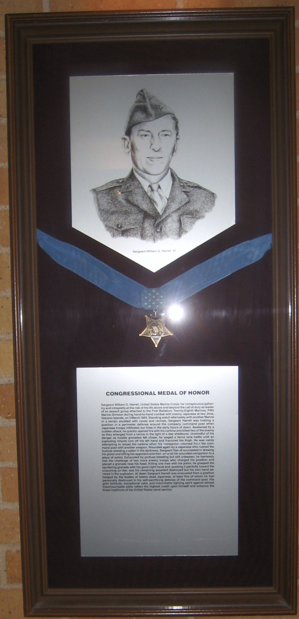 An image of William G. Harrell, a specimen Medal of Honor and his citation on display at the Memorial Student Center at Texas A&M University